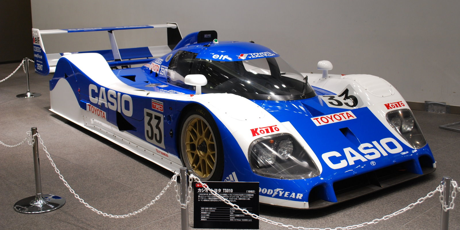 Toyota TS010